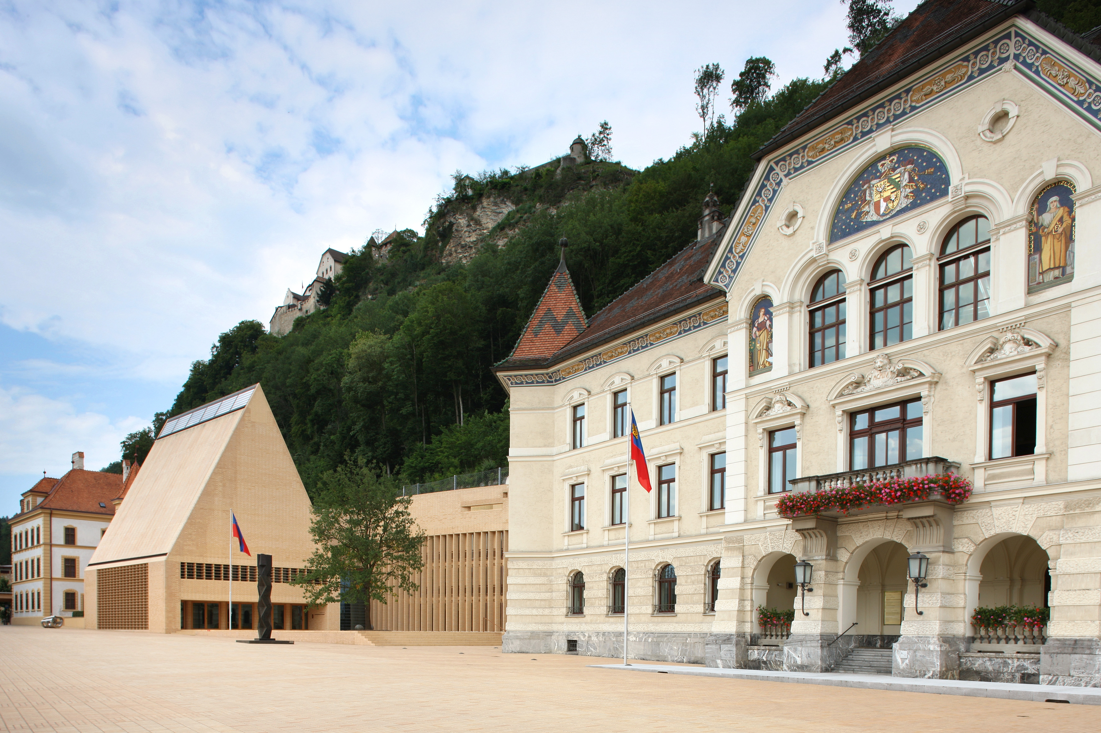 House of Parliament and Gouvernmental Building of Liechtenstein; in Vaduz